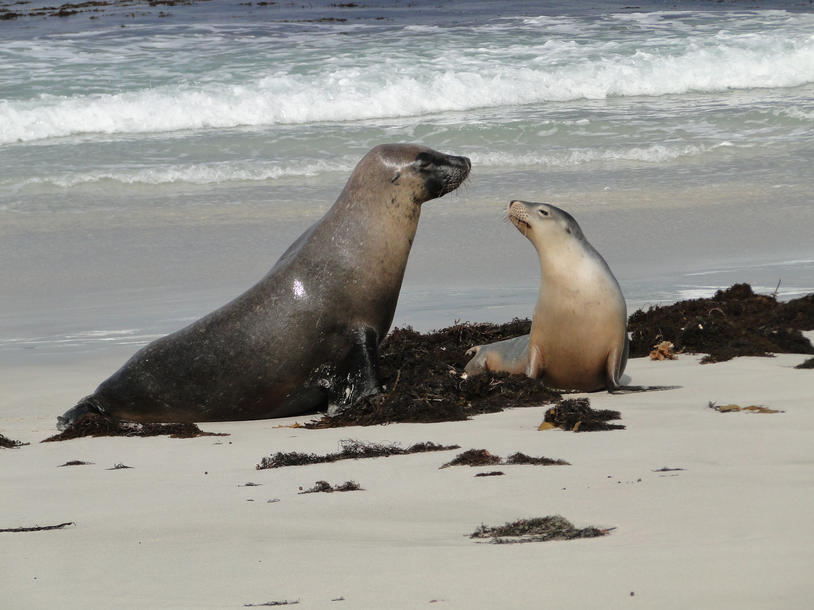 An Australian sea lions on the beach at the Seal Bay Conservation Park on Kangaroo Island, South Australia